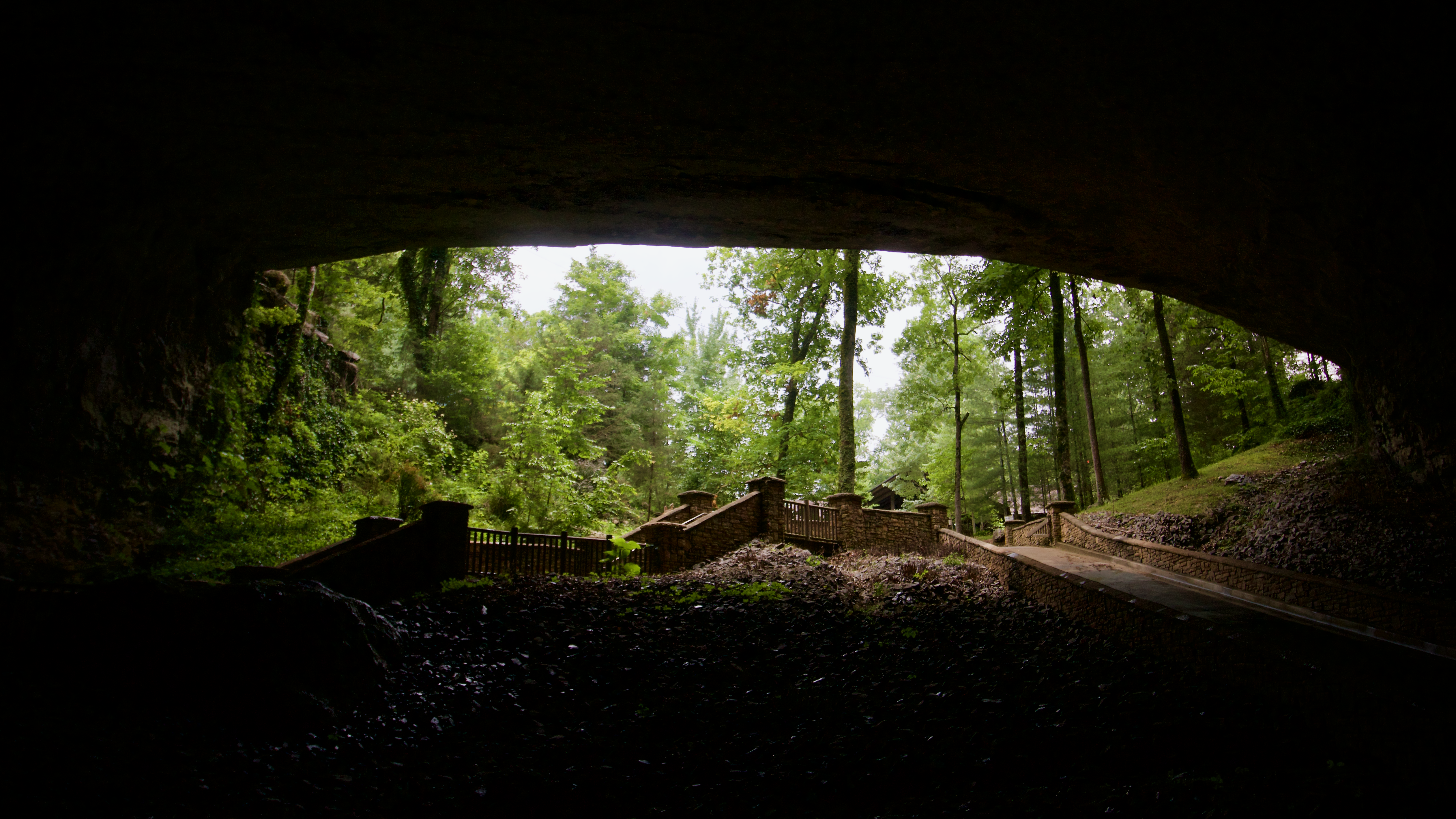 This is the bottom of the entrance of the Cathedral Cavern in 2019